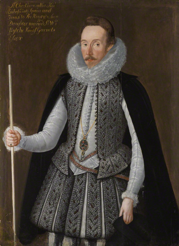 Portrait of Sir Charles Cornwallis, diplomat, died 1629.